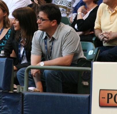 Mark Attanasio sitting with his wife during a Brewers game at Miller Park.